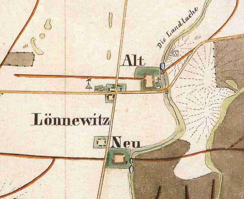 Lönnewitz, Lkr. Elbe-Elster, Brandenburg, Germany, detail from the Urmesstischblatt Sheet 4445 Falkenberg, drawn in 1841